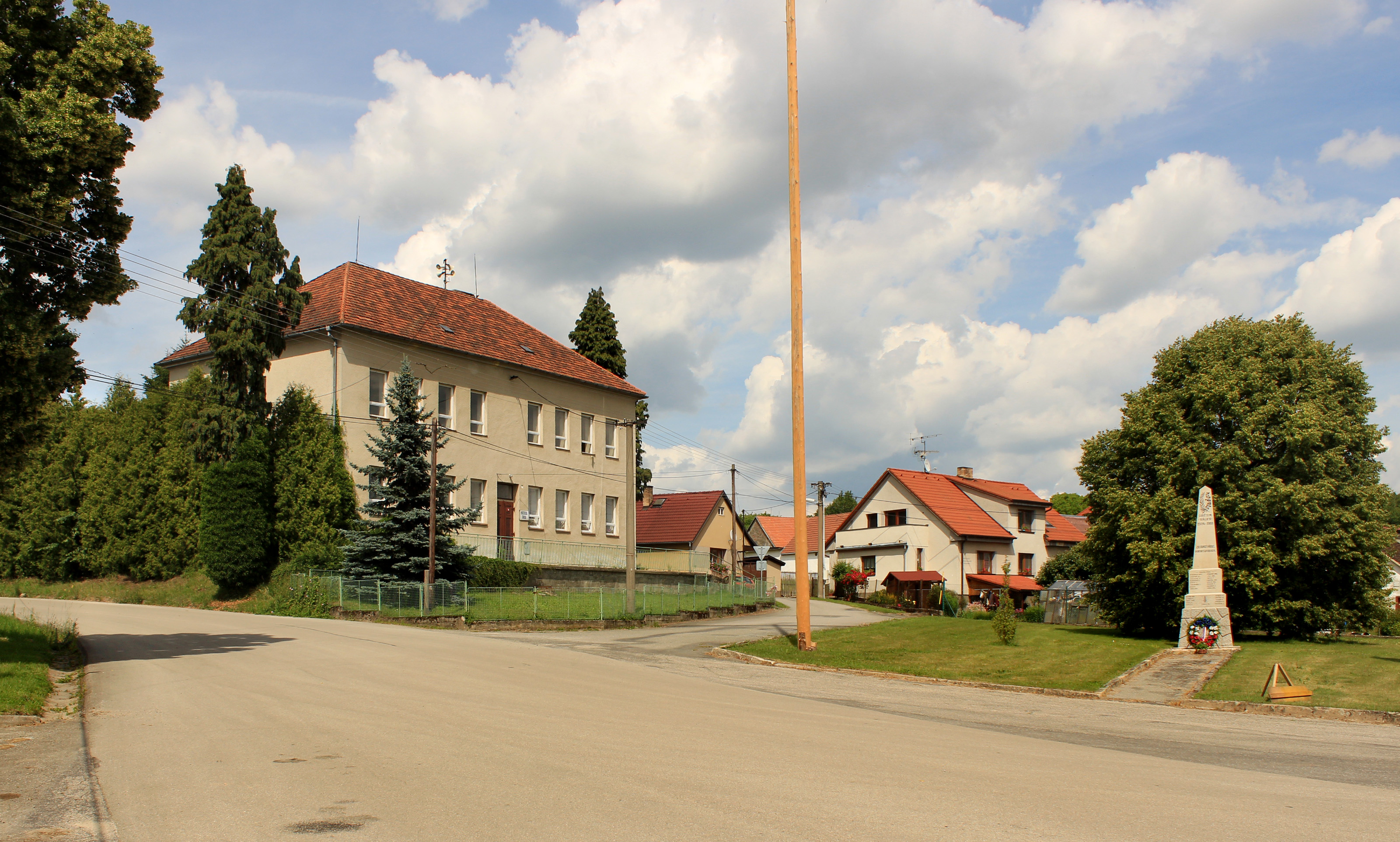 Common in Okrouhlá Radouni, Czech Republic.